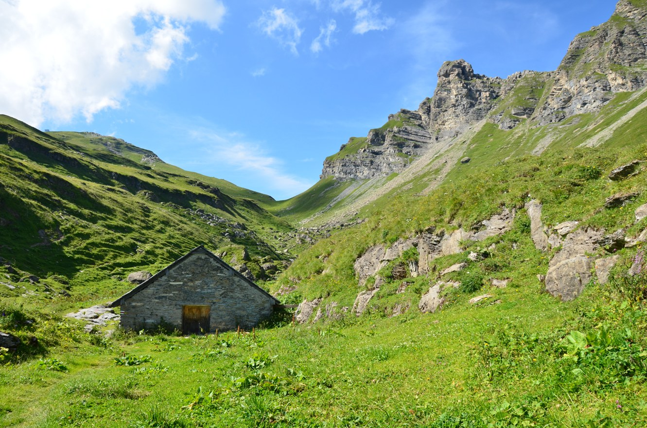 Col de Seron, Cape au Moine